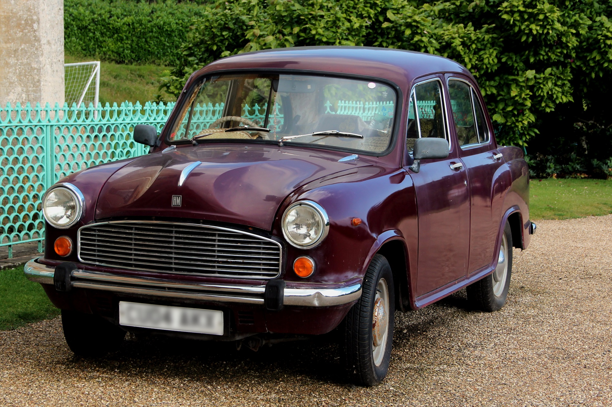 2004 Hindustan Ambassador Classic 1800 ISZ, belonging to Karma Kars taxi service of London.